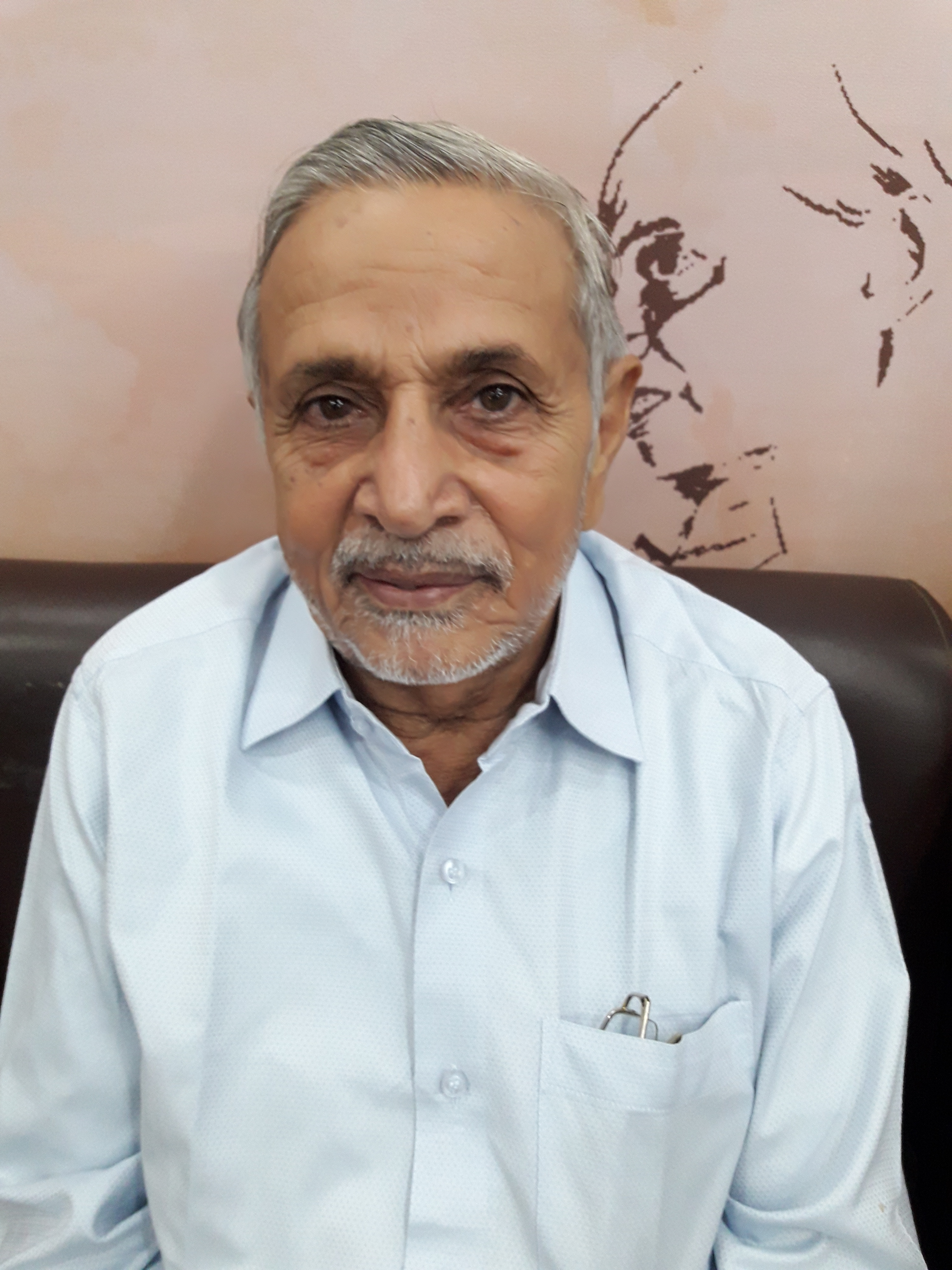 Gujarati folklorist Bhagwandas Patel at Ahmedabad National Book Fair - 2018, on 28 November 2018